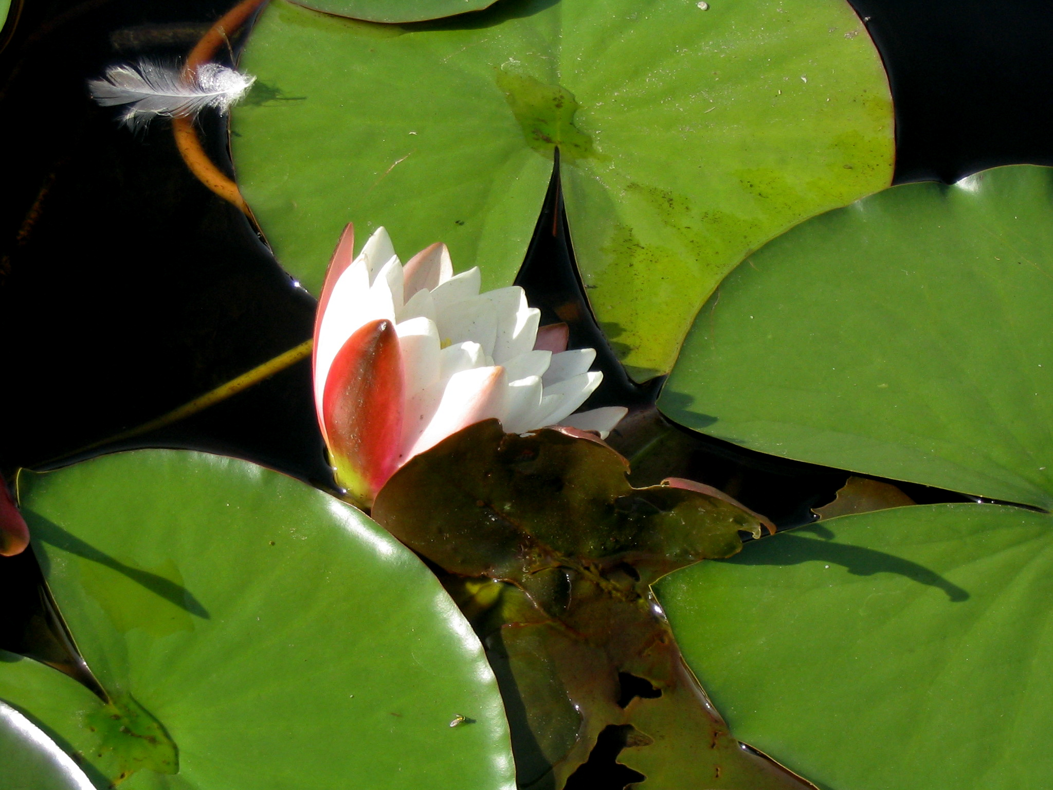 Water-lily at the New-Brunswick Botanical Garden Français cadien: Nénuphar au Jardin botanique du Nouveau-Brunswick